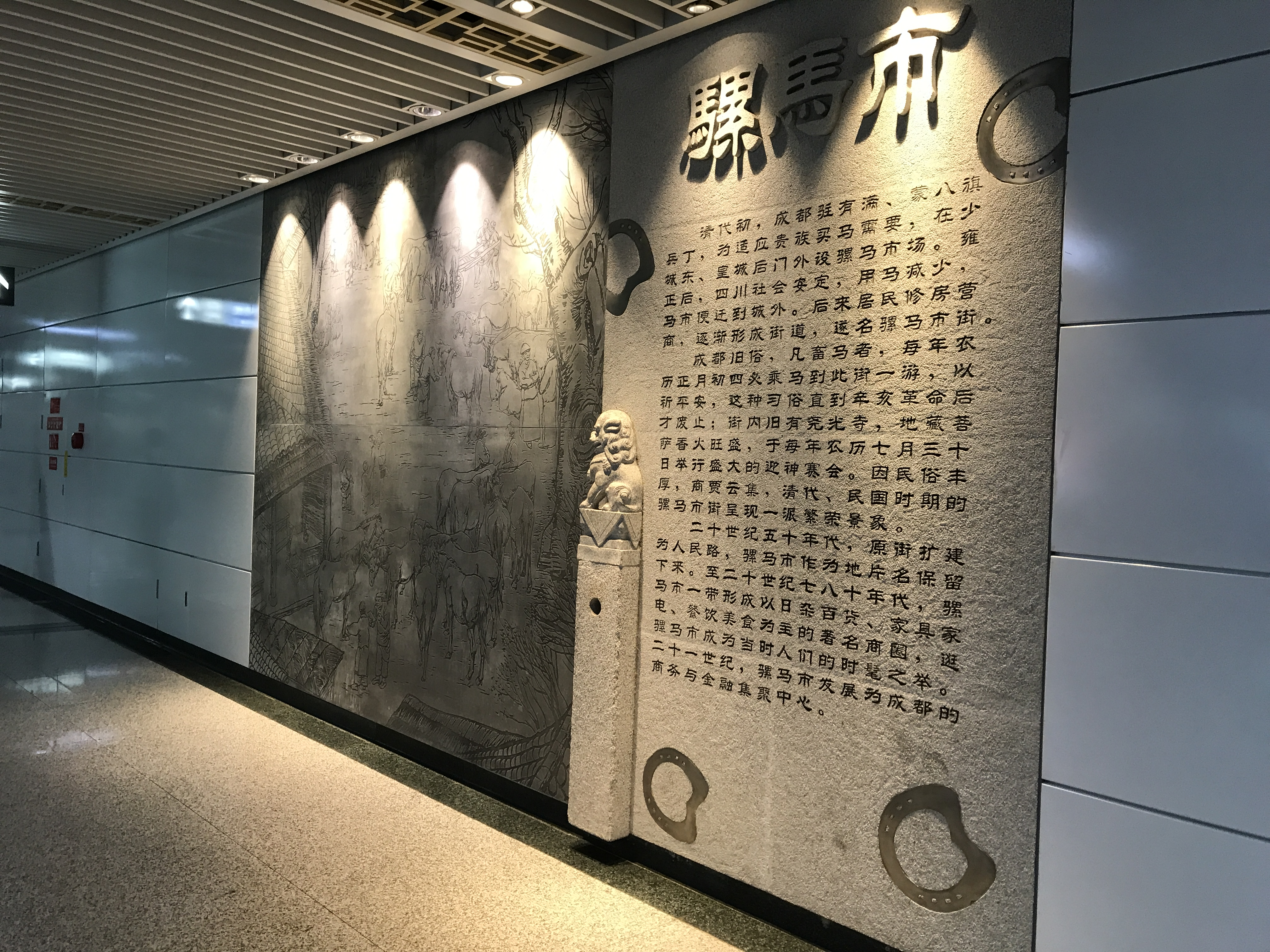 Artwall in Concourse of Luomashi Station, Chengdu Metro